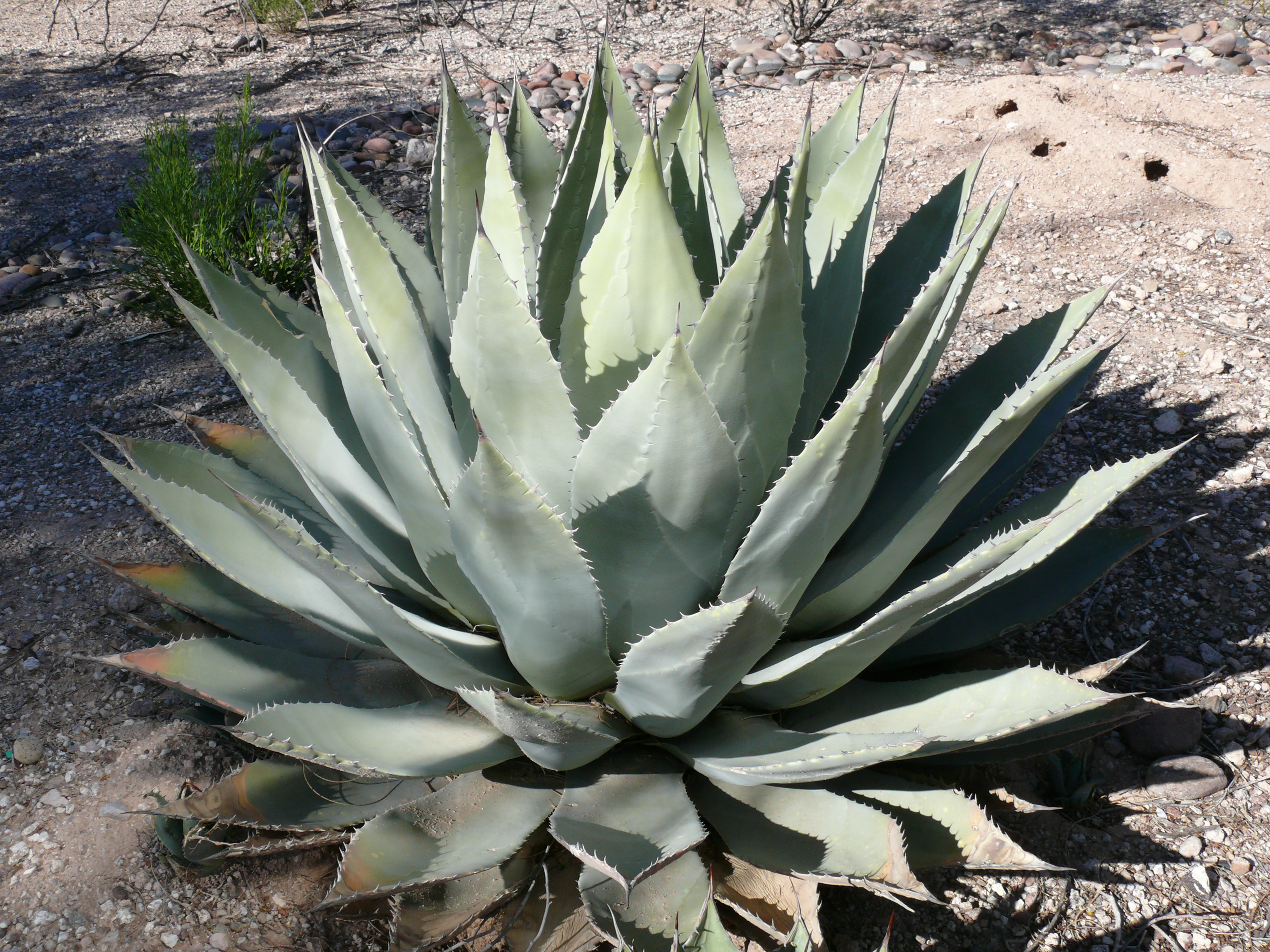 Huachuca Agave (Agave huachucaensis) photo taken in Tucson, AZ